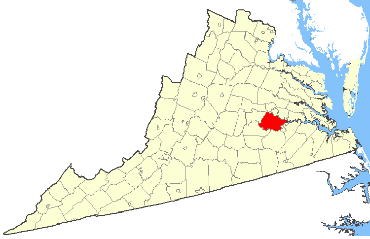 Maps of counties in Virginia